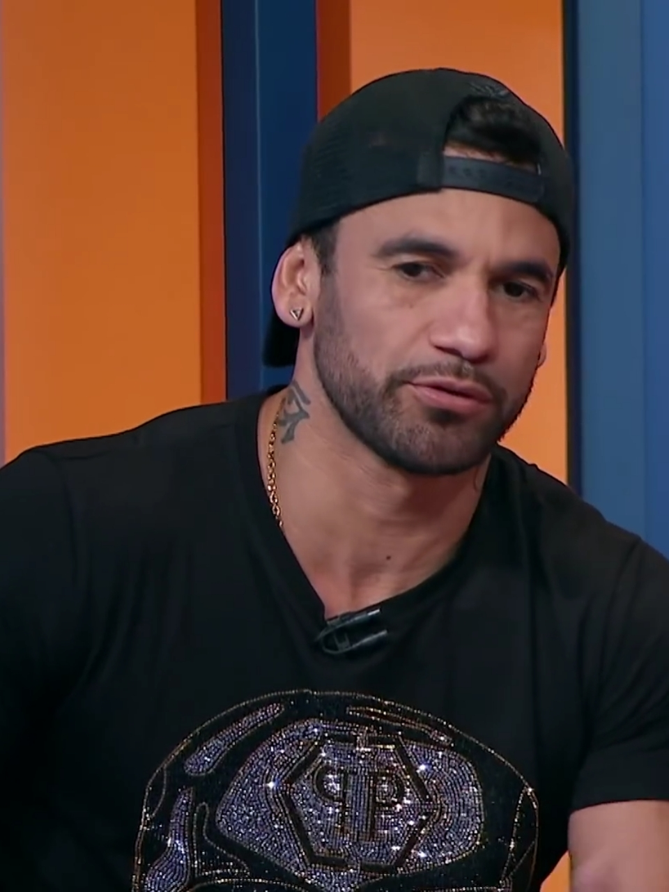 Hadson Nery during "A Eliminação"on February 13, 2020